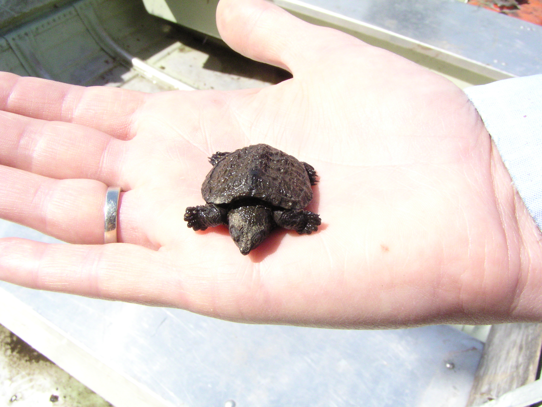 A tiny baby snapping turtle in my hand